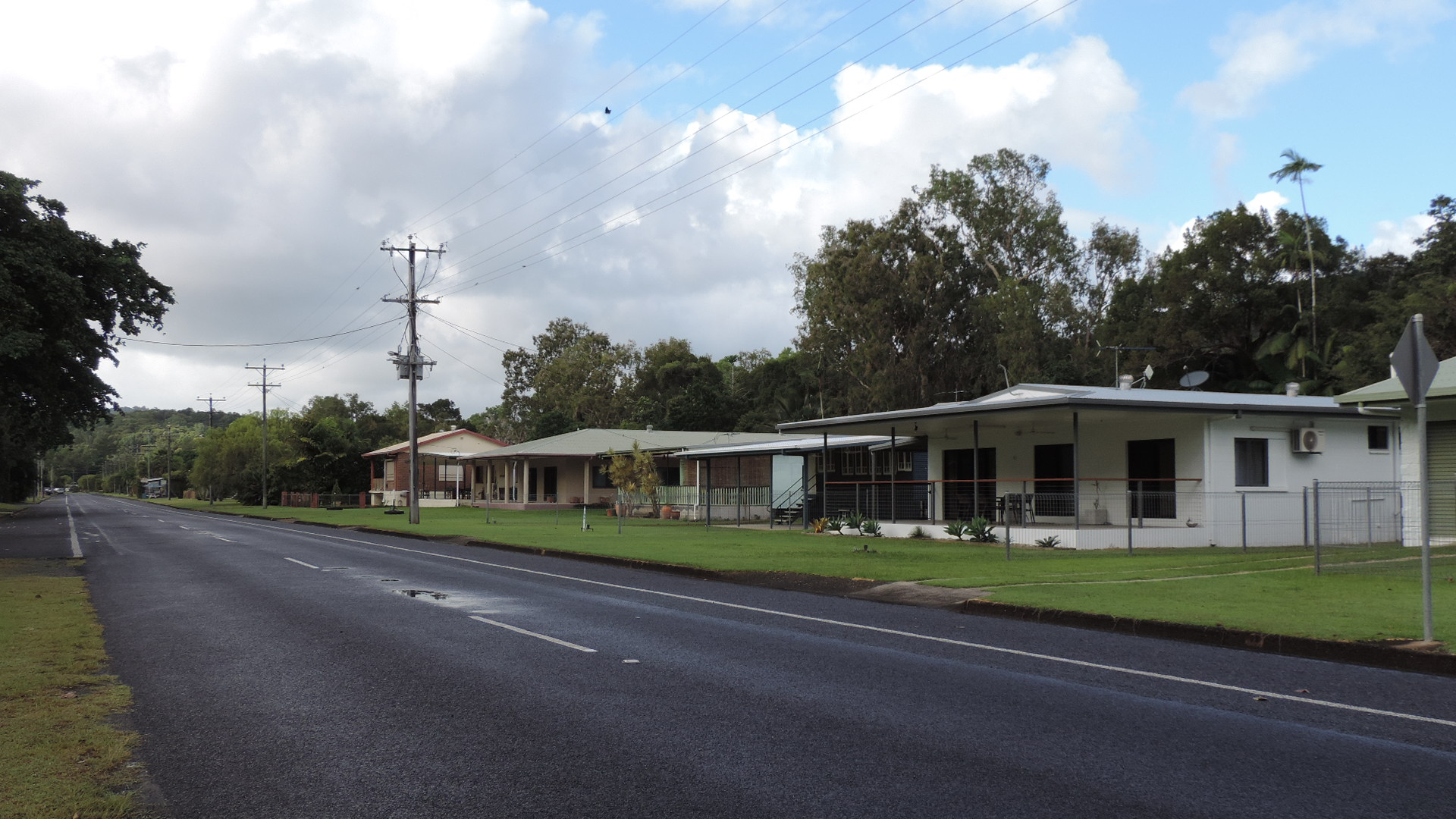 Looking south down Evans Road, Bramston Beach, 2018